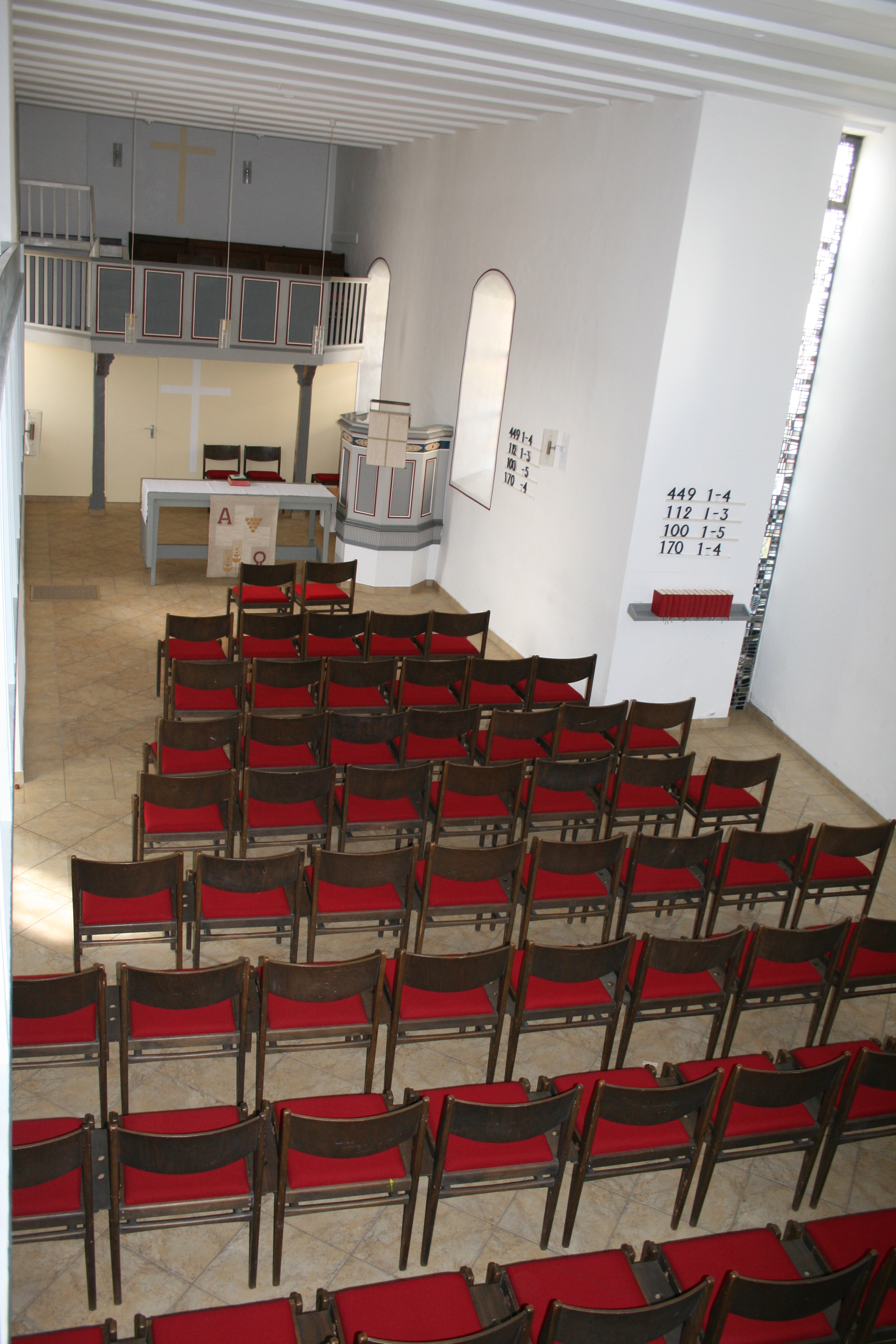 Interior view of the chapel Kapelle Hesselbach, in Hesselbach, North Rhine-Westphalia, Germany.